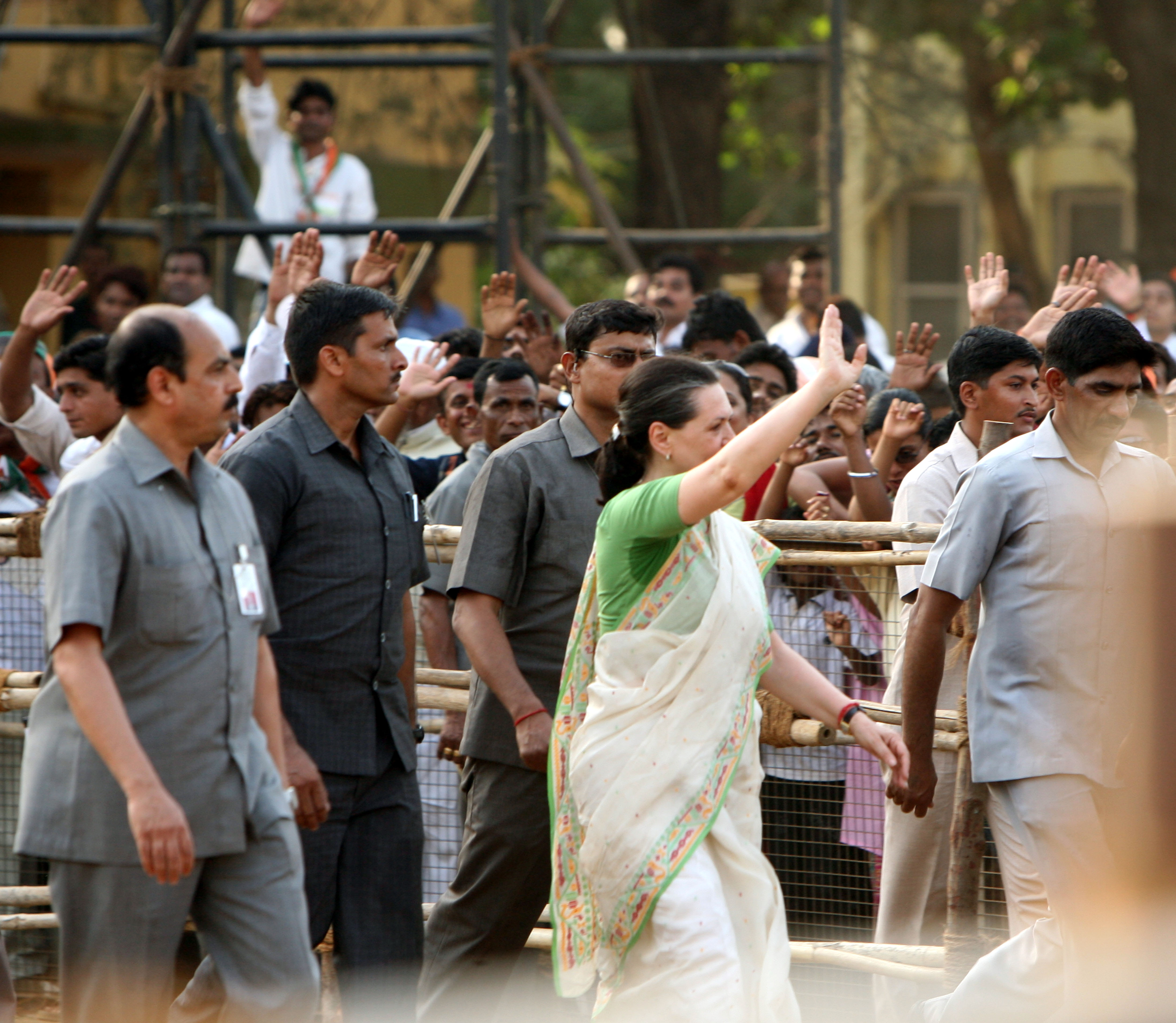 The ruling Congress Party has also deployed its big name - Sonia Gandhi, the party's president and widow of former India prime minister Rajiv Gandhi.